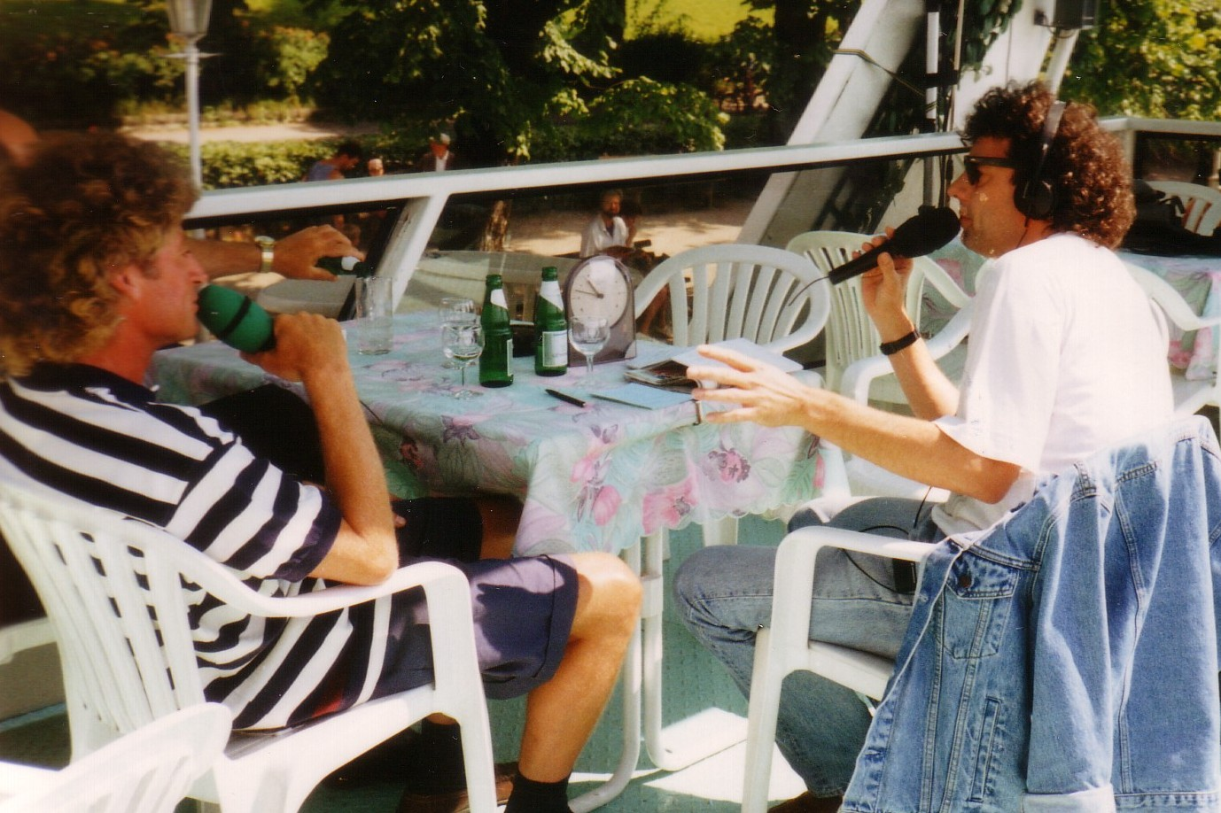 Wolfgang Heim broadcasting a community programme on SDR3 (Germany), 4 August 1995